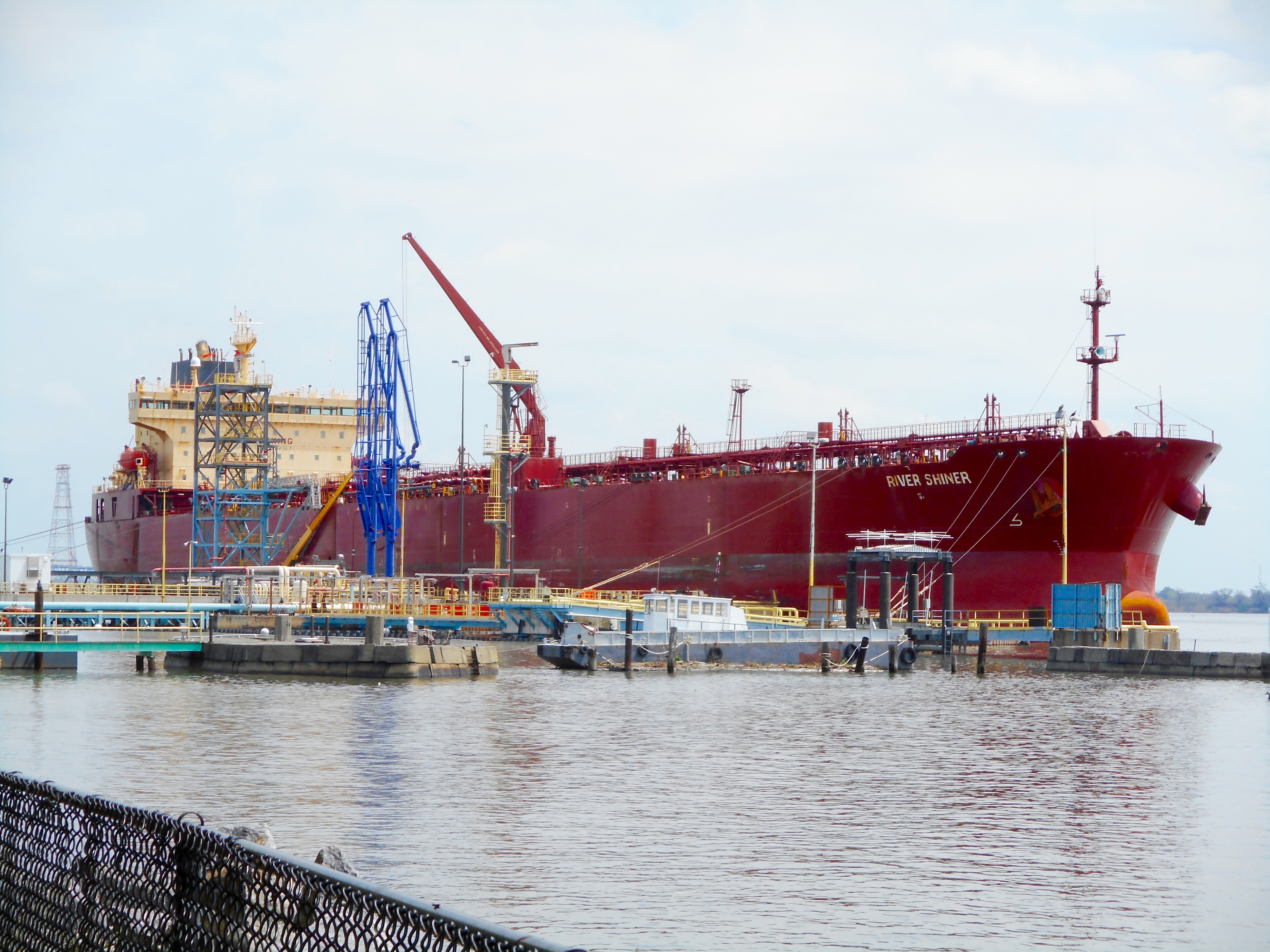 The ship River Shining in Marcus Hook, Pennsylvania